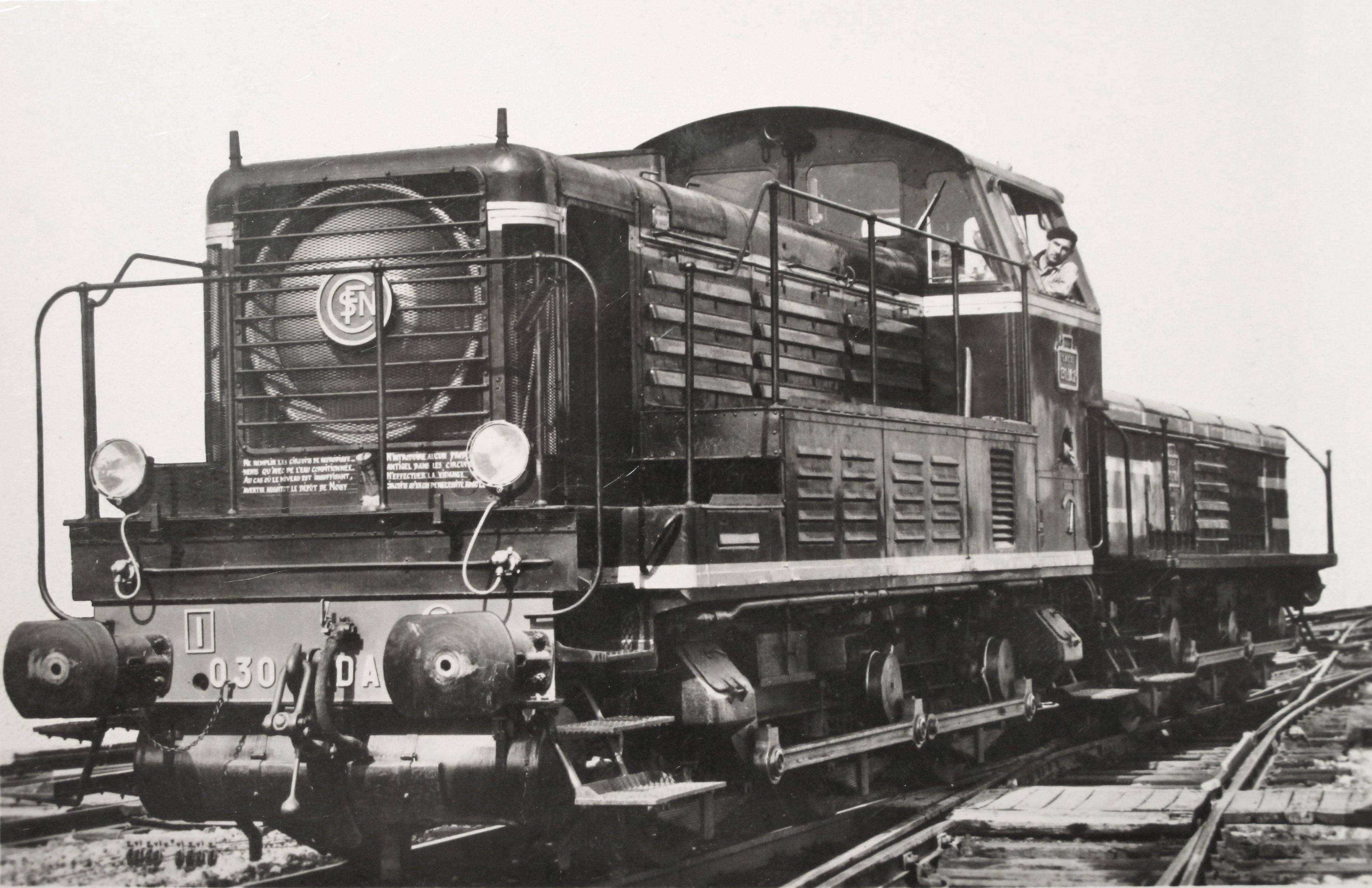 Diesel-electric locomotive serial 030 DA of SNCF.